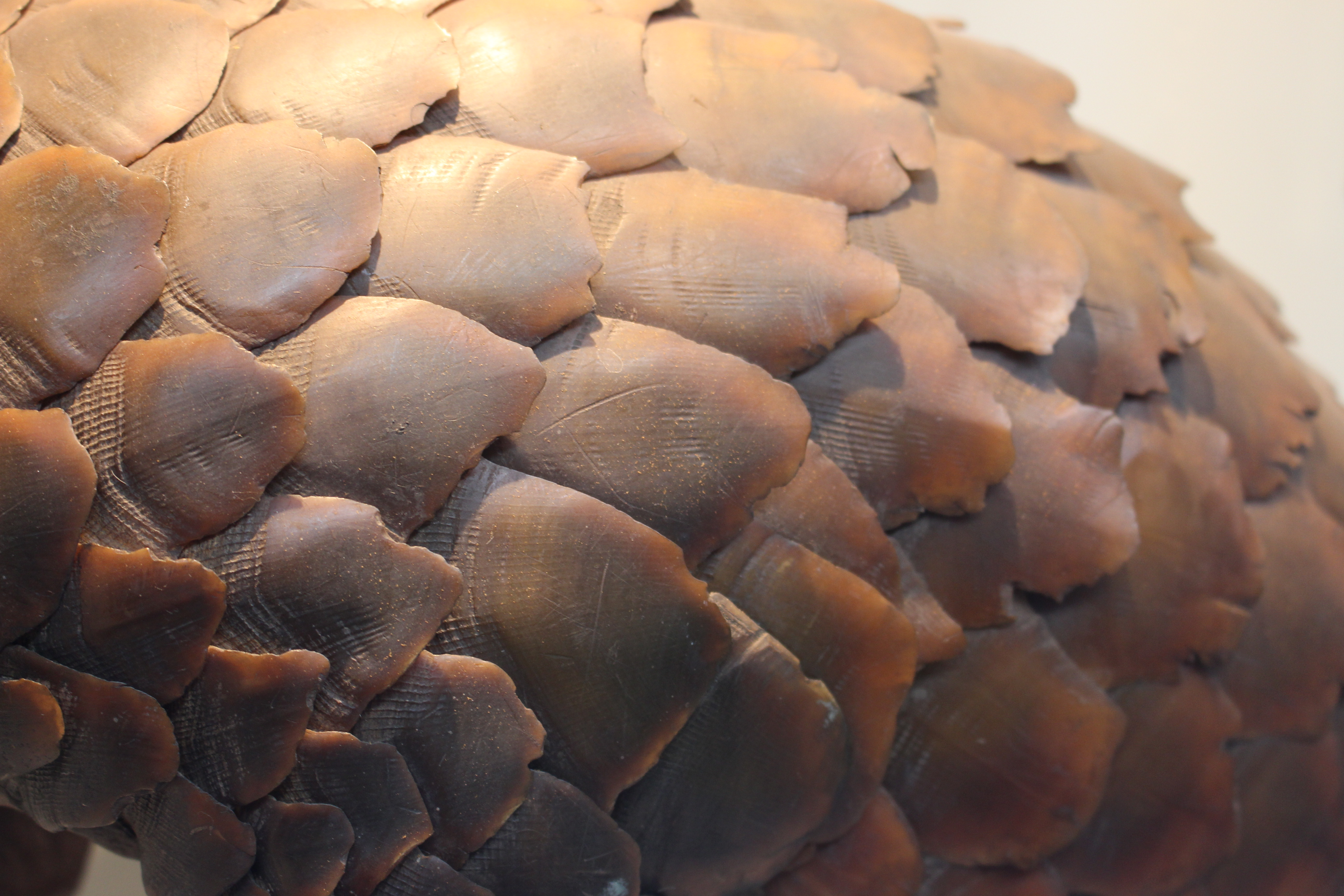 Taxidermied giant pangolin's (Smutsia gigantea) scales at the Natural History Museum in London, England.